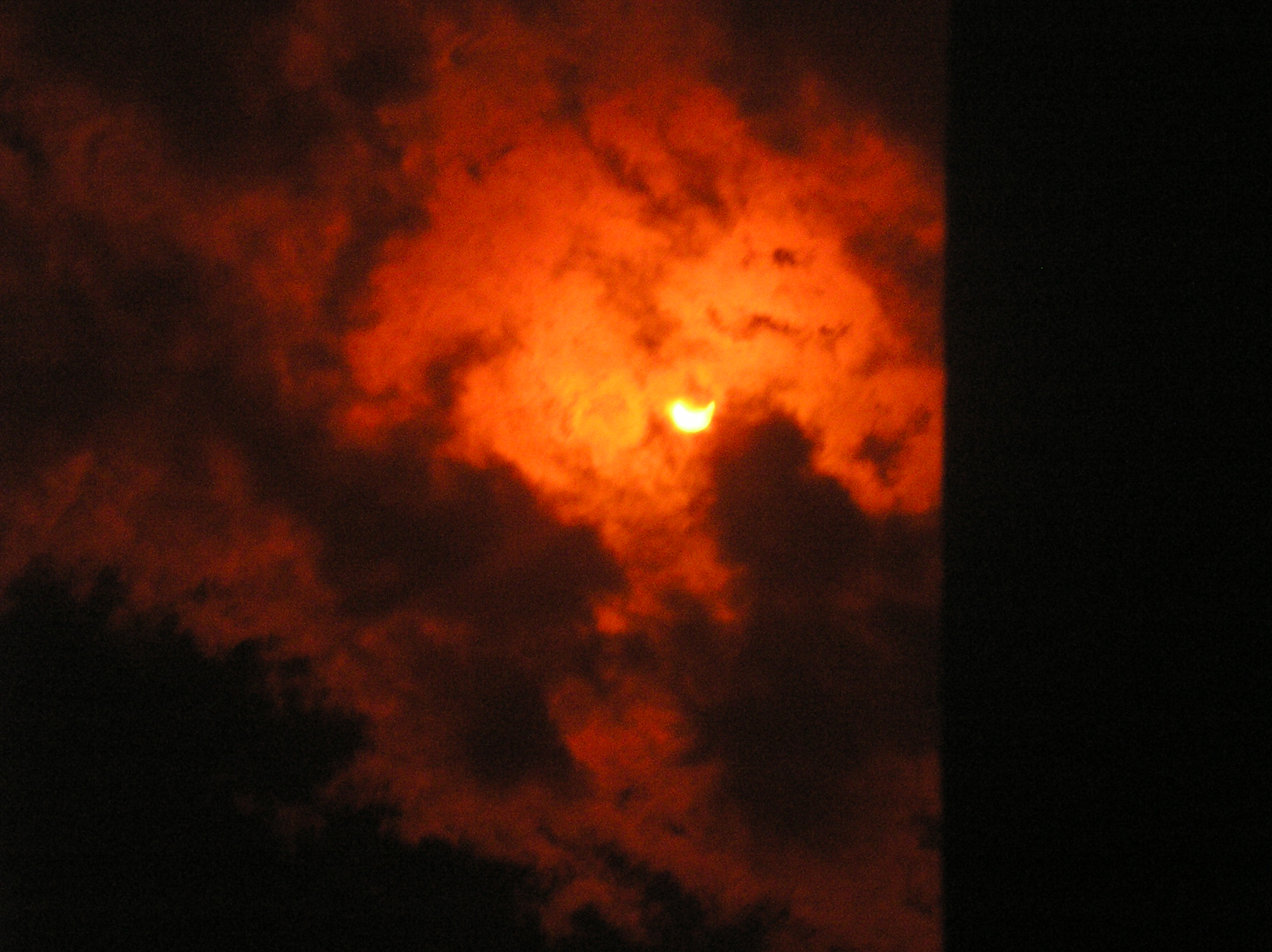 Sun eclipse in 2008, Saratov, Russia